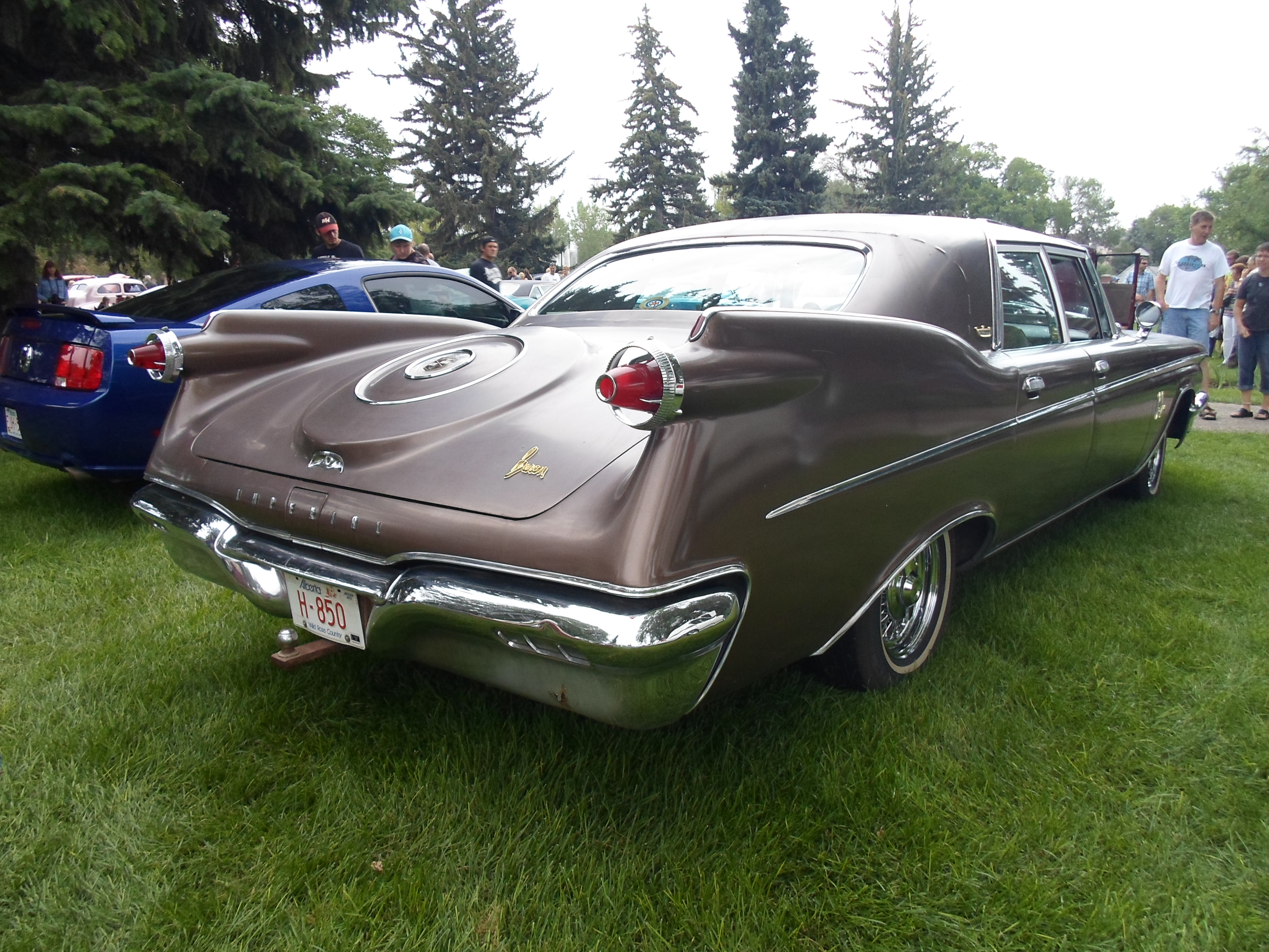 1960 Imperial LeBaron rear